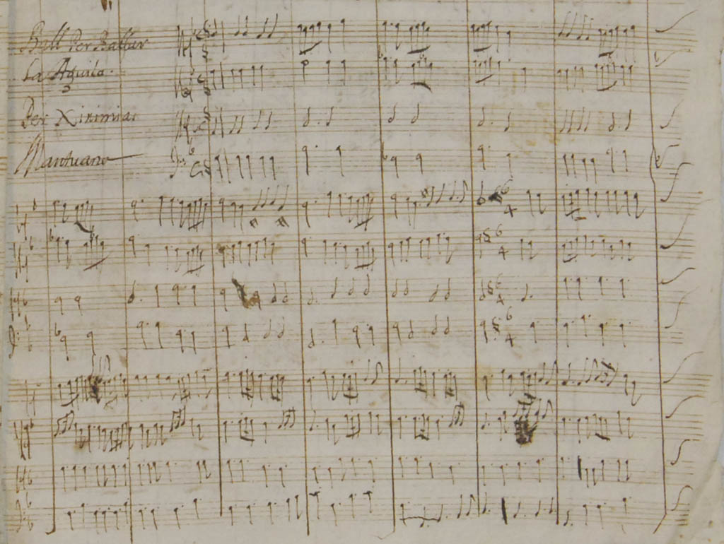 Sheet of the "Ball per ballar l'Àguila" of the original manuscript of the year 1756 preserved in the Parish Archive of Santa Maria del Pi, Barcelona. APSMP Mus M-1514